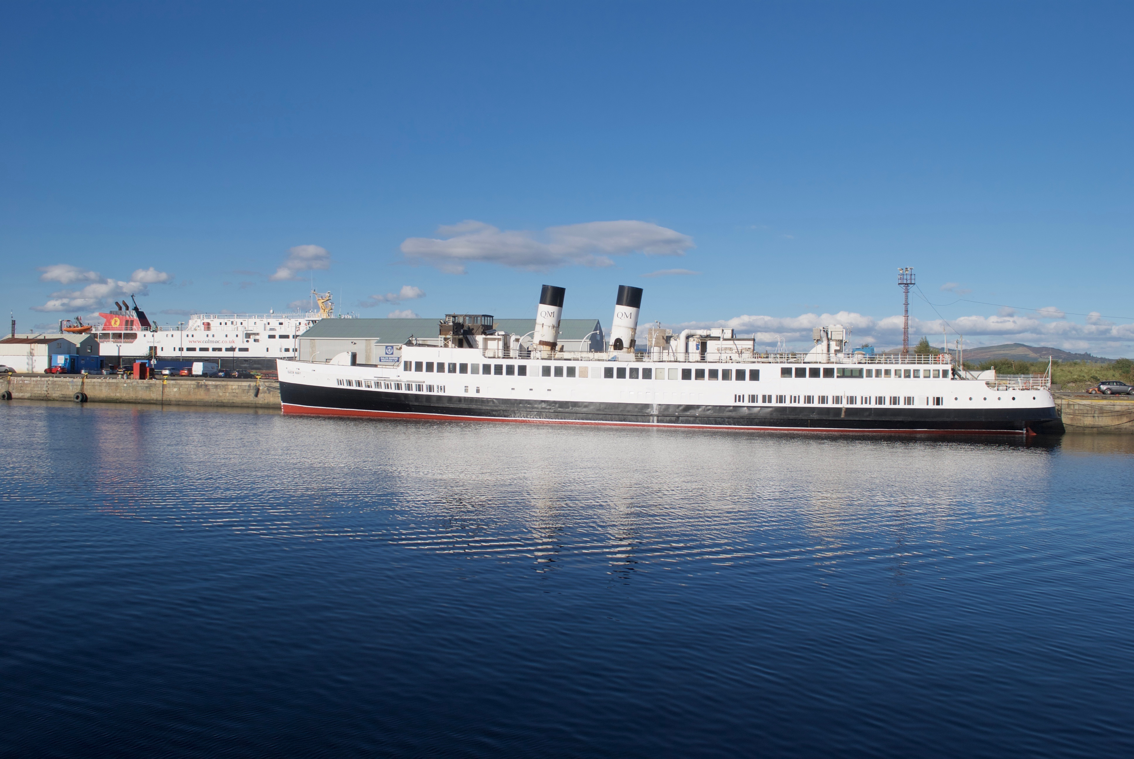 The James Watt Dock, Greenock, with TS Queen Mary in dock after repairs, in front of MV Hebrides in the Garvel dry dock.